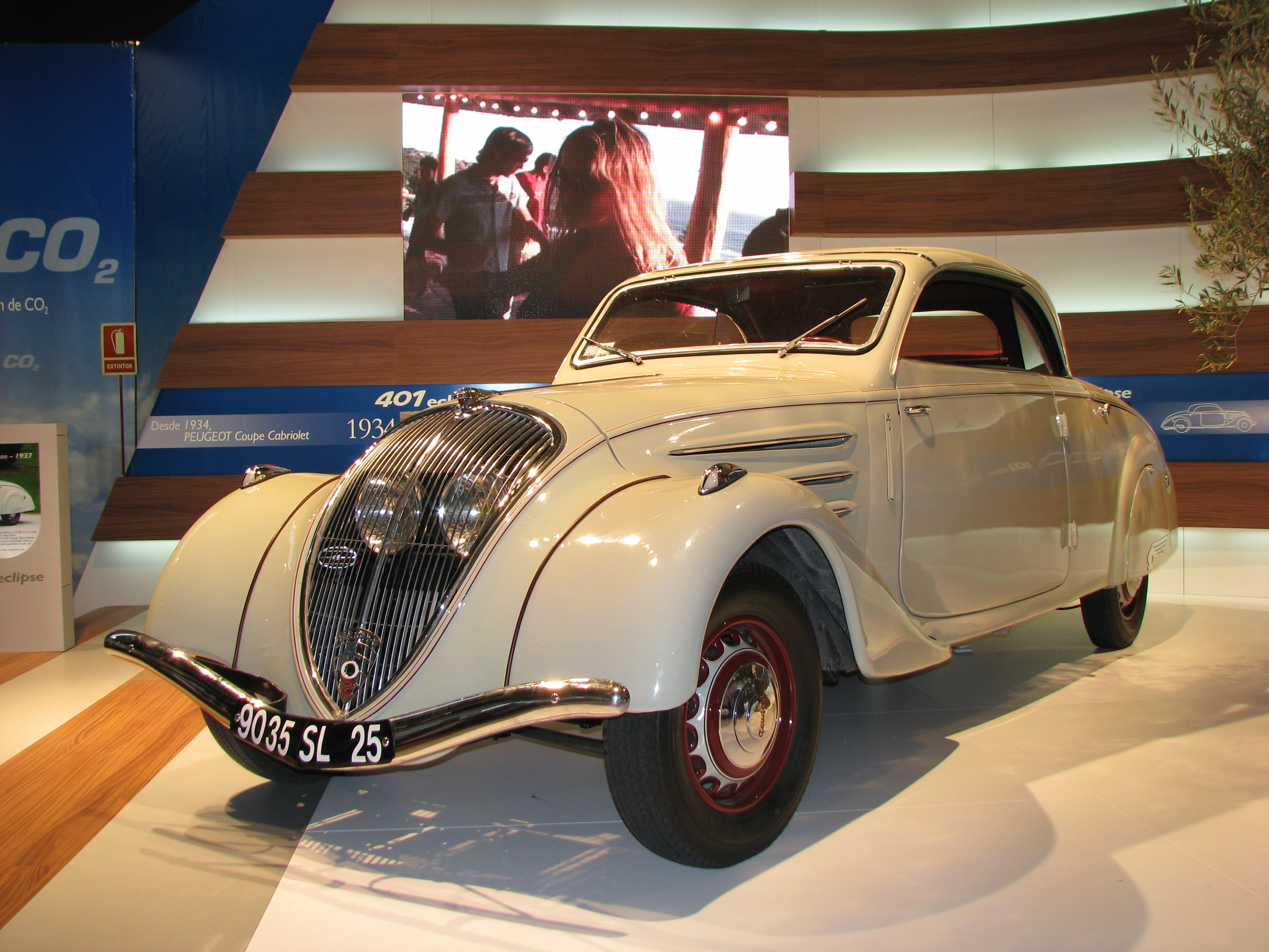 Peugeot 402 at 2009 Barcelona motorshow edition